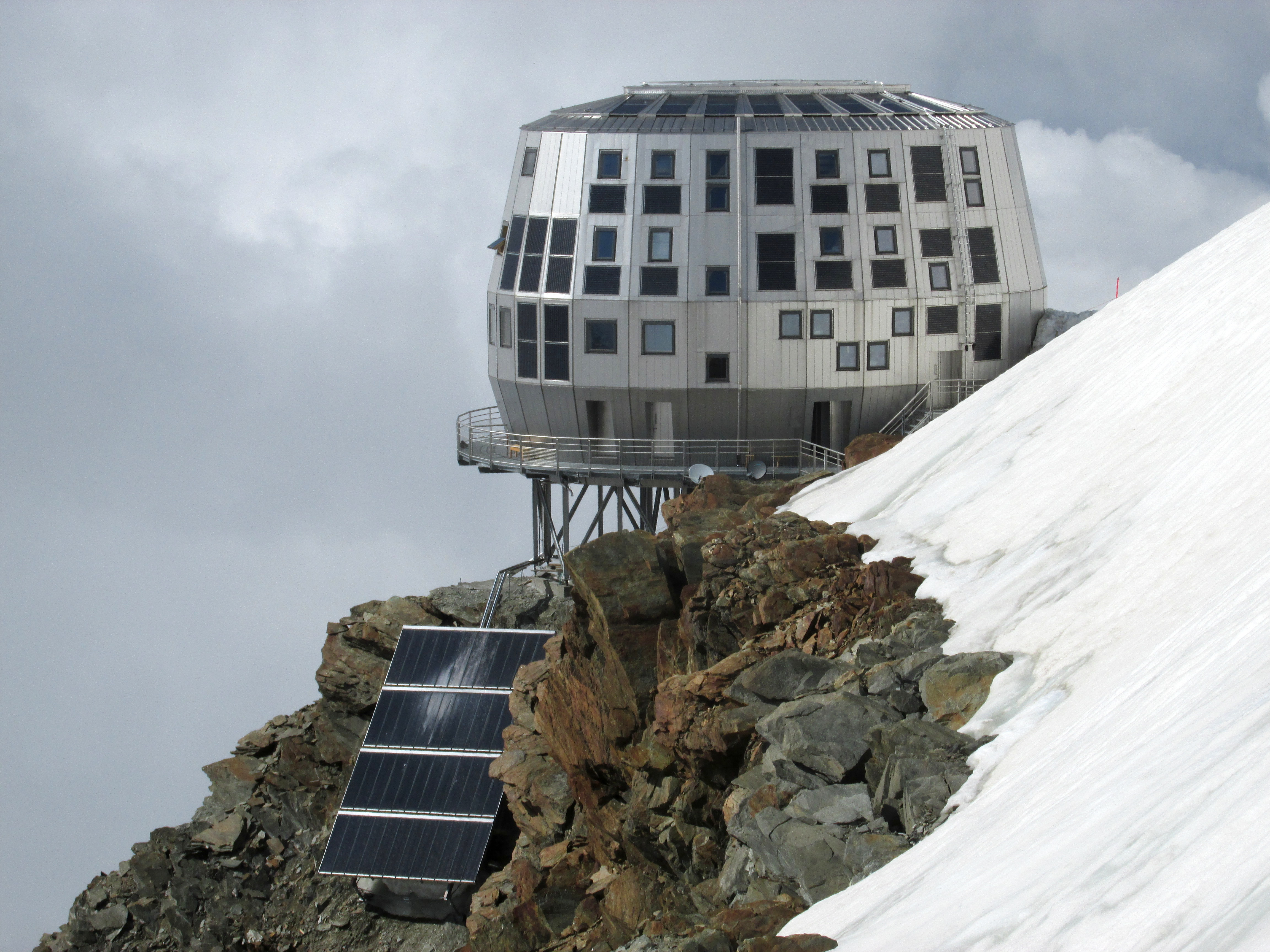 The new Goûter Hut